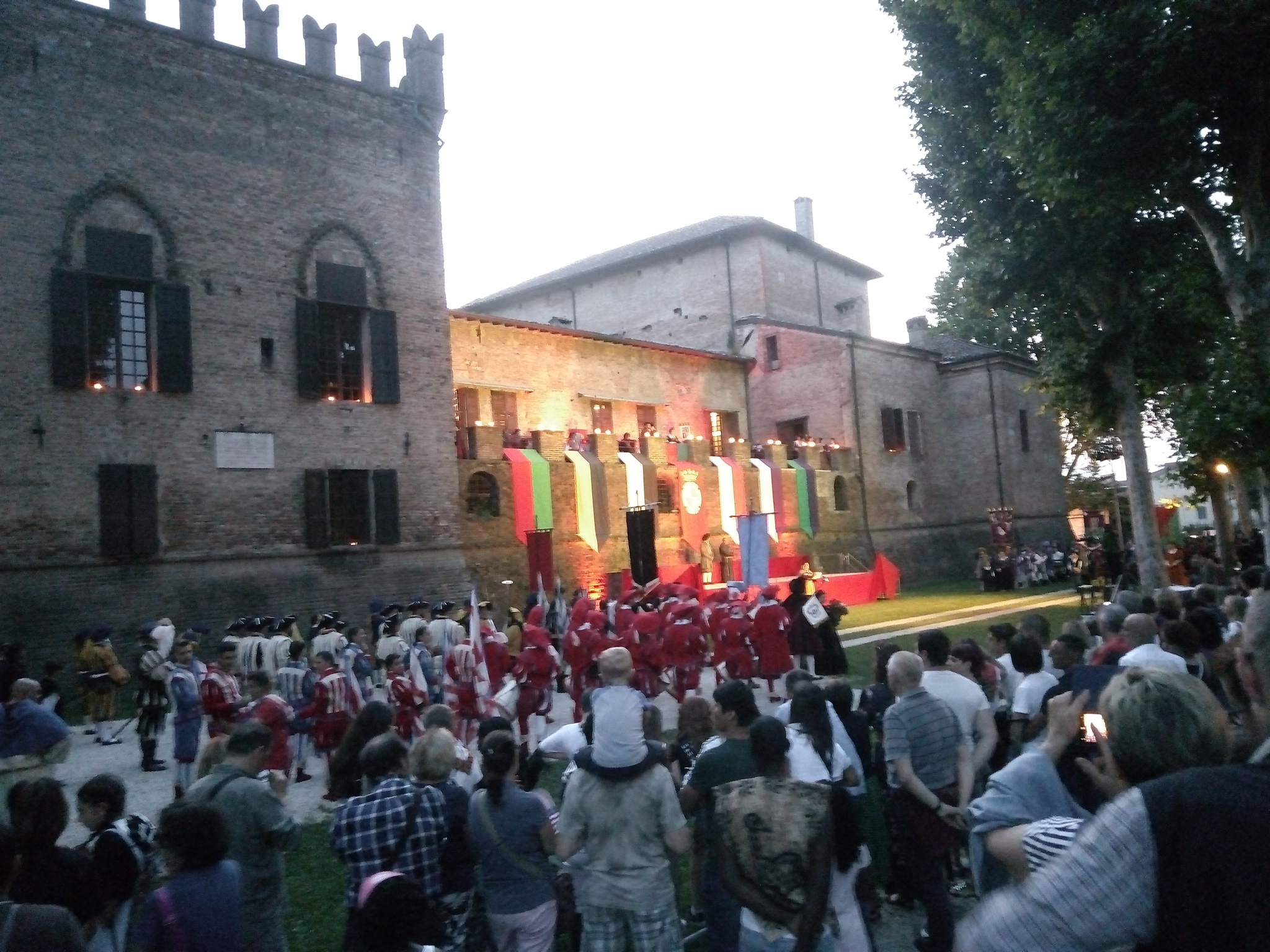 Palio of San Secondo the castle